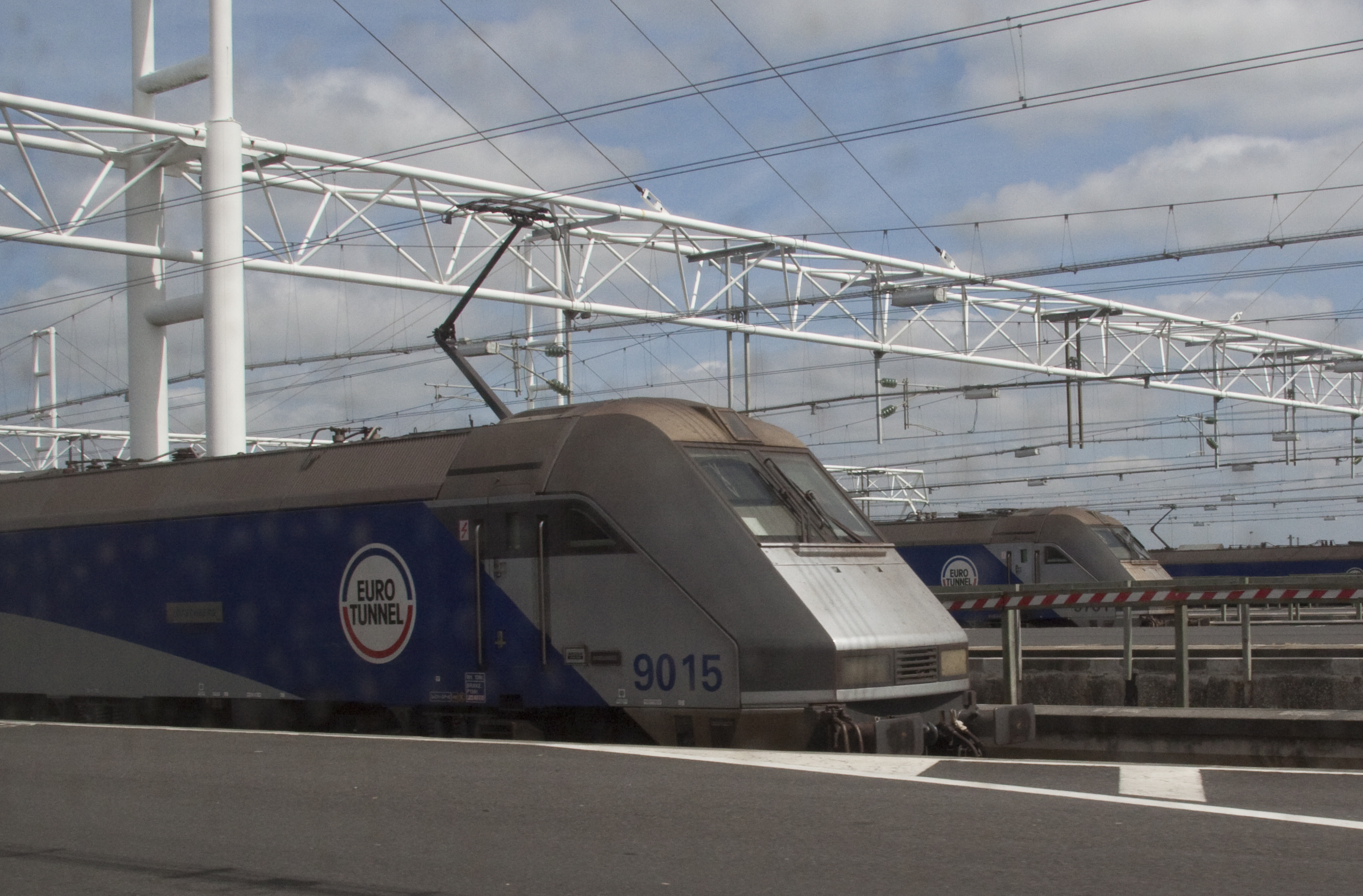 Arriving back in England after two and a half weeks away